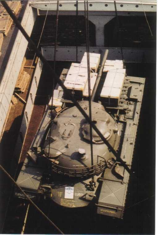 The M48 Patton tank is lowered carefully into the lower hold from hatch three of TS Nabob, New York - 1959